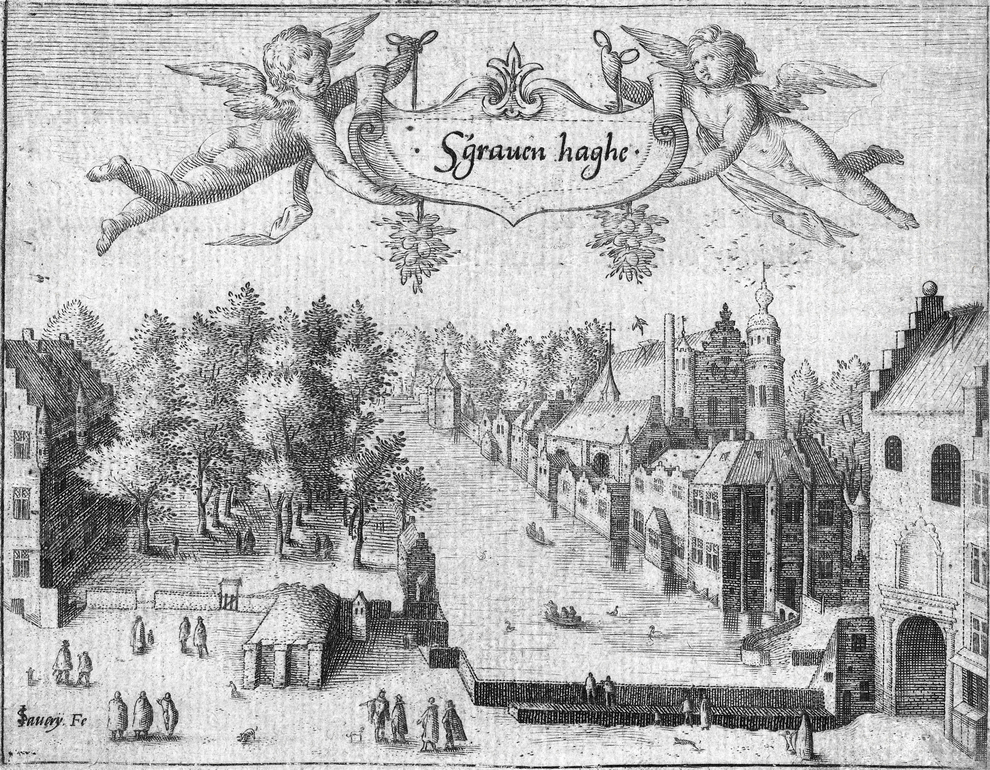 Image on the title page of a legal publication from the year 1592, with a depiction of the Vijverberg (name of the tree-lined street, on the left, between the pont and a building) and the Binnenhof (Inner Courts, on the right side) in The Hague. In the air above The Hague are two angels who appear to hold a cartouch on which is written "S'grauen haghe". Above the picture the title data, below the picture the address of the publisher. On the back of the sheet, the text of a privilege granted to the publisher Claesz.